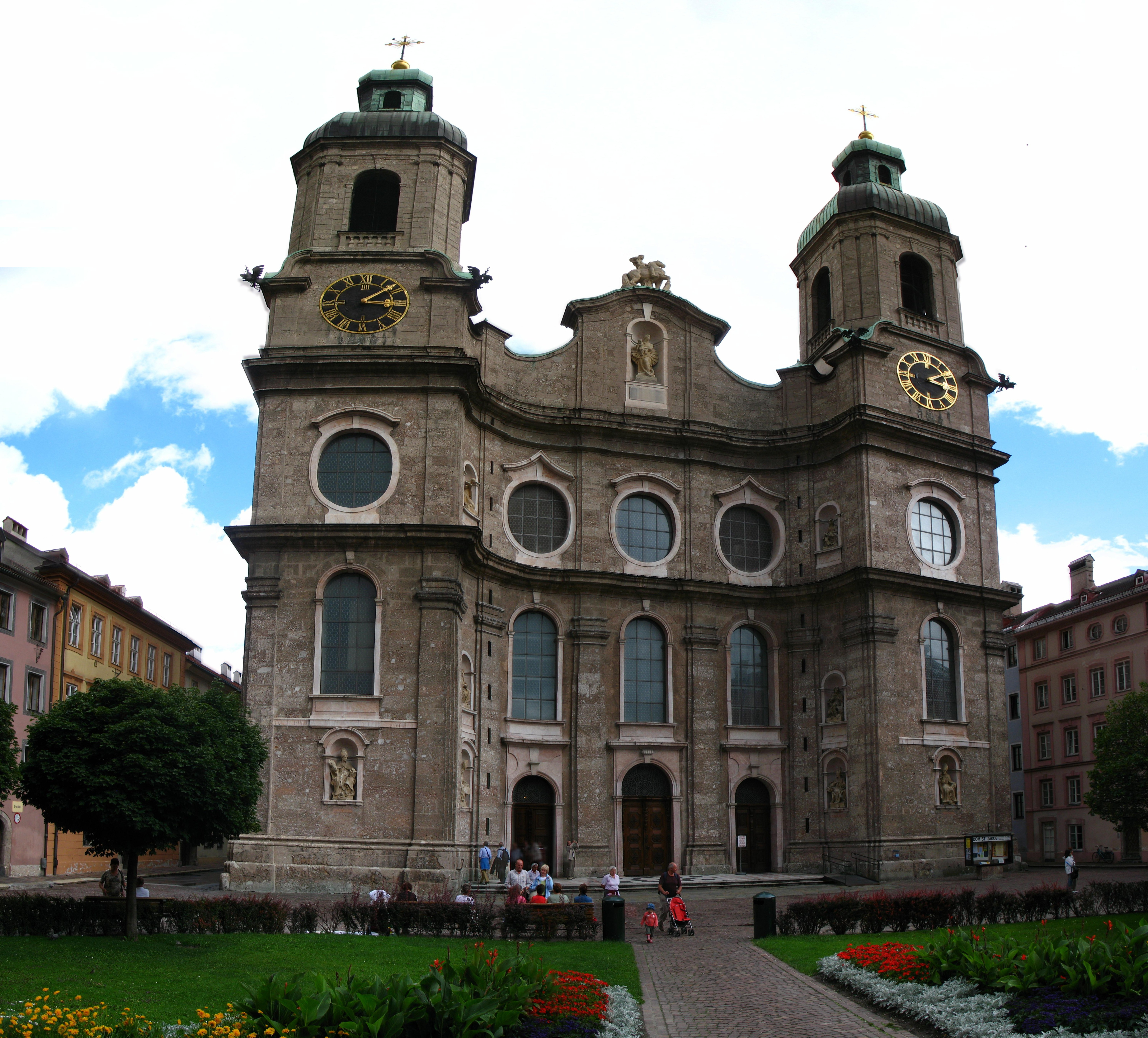 Cathedral of Saint Jacob, Innsbruck, Austria